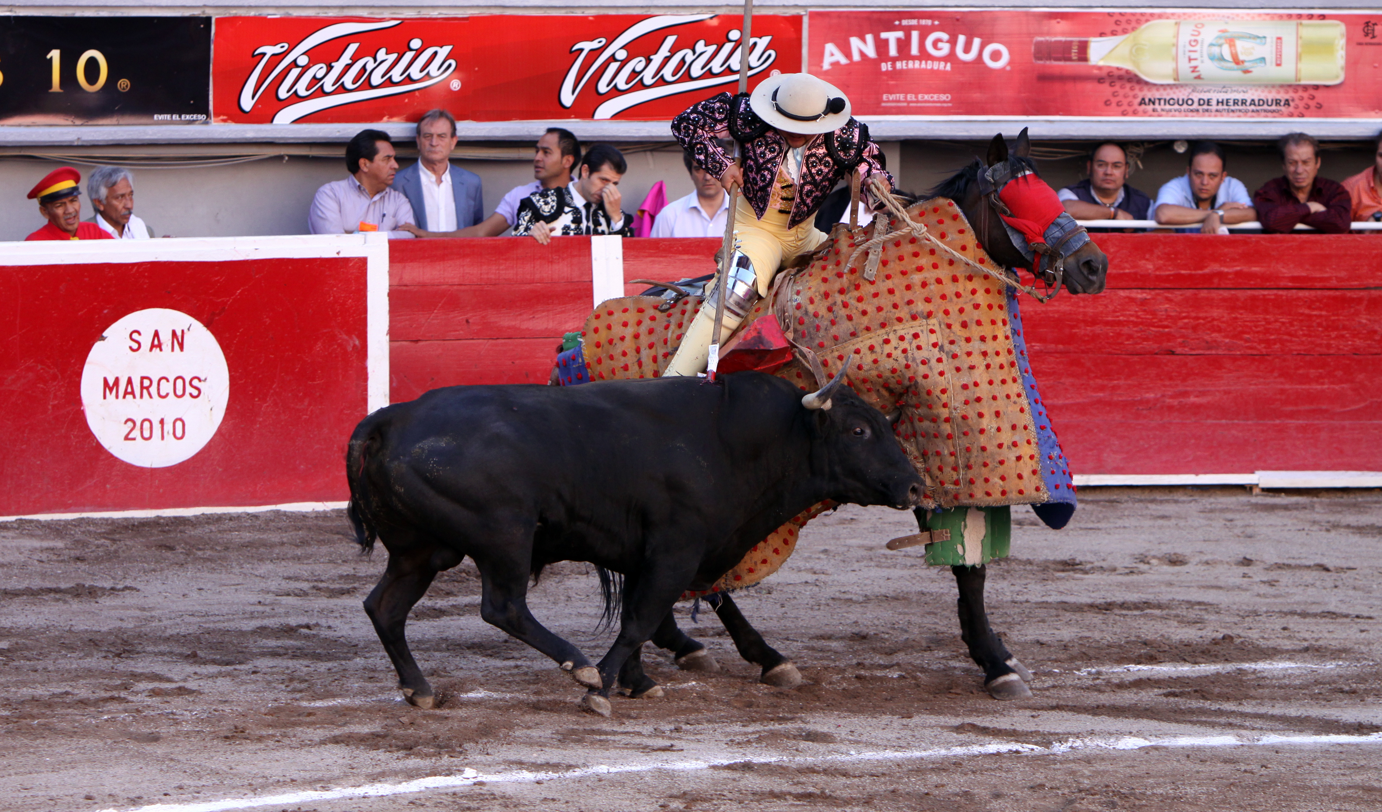 Bullfight in Aguascalientes, Mexico